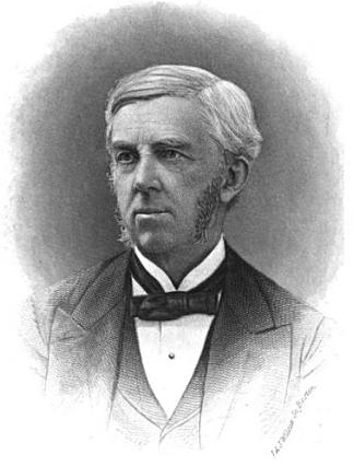 Cropped version of File:Holmes with signature.jpg